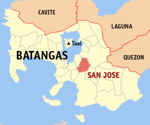 Map of Batangas showing the location of San Jose